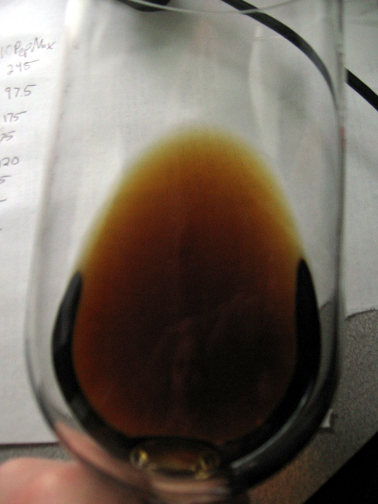 Aged white wine. Blandy's Malmsey Madeira